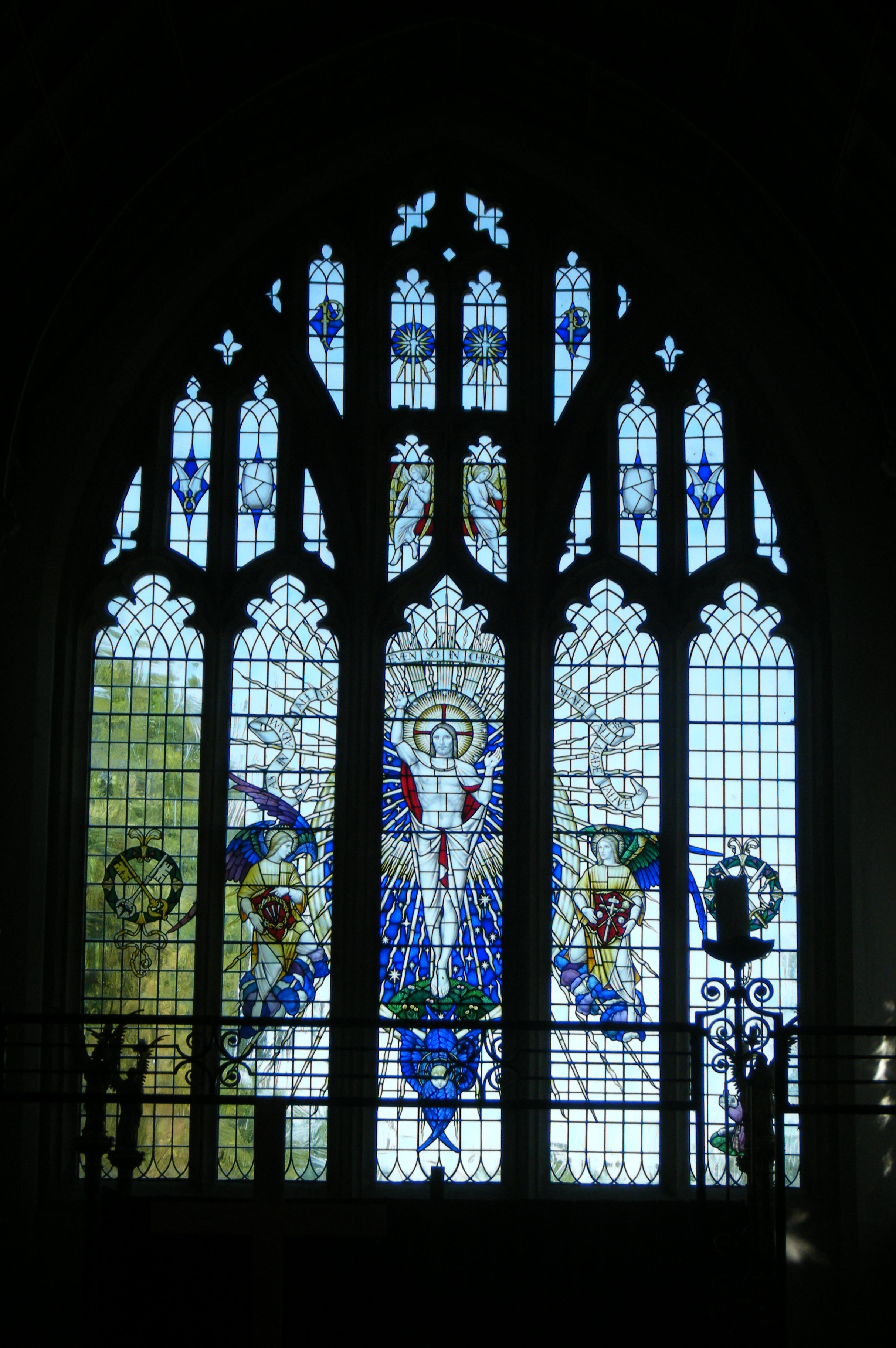 C15th Perpendicular window with modern (1962) stained glass to replace original destroyed in the English Civil War over 300 years previously at Northleach Church, Gloucestershire, 07/12.